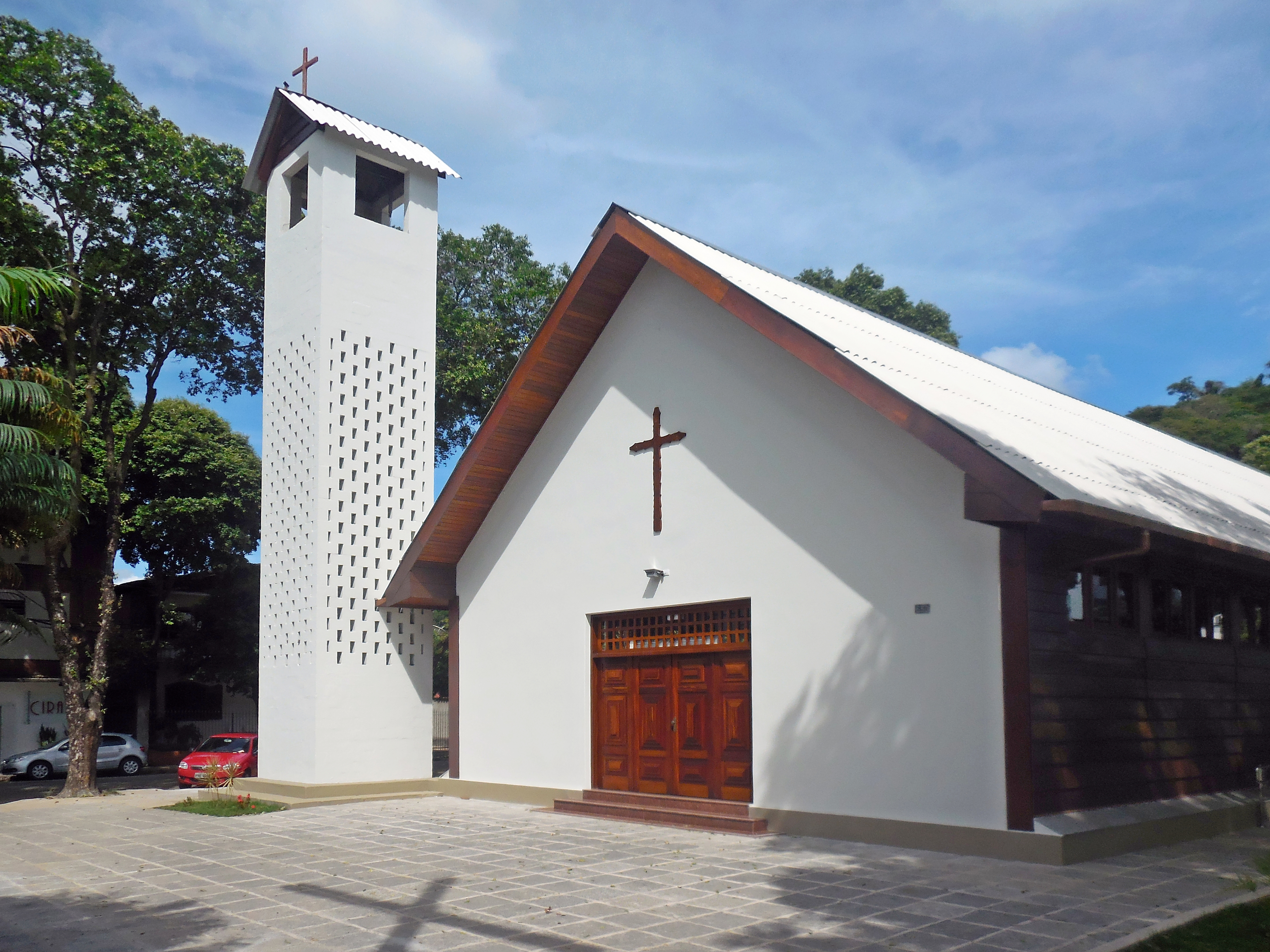 Facade of the Our Lady of Hope Church of the Horto neighborhood, in Ipatinga, Minas Gerais, Brazil.